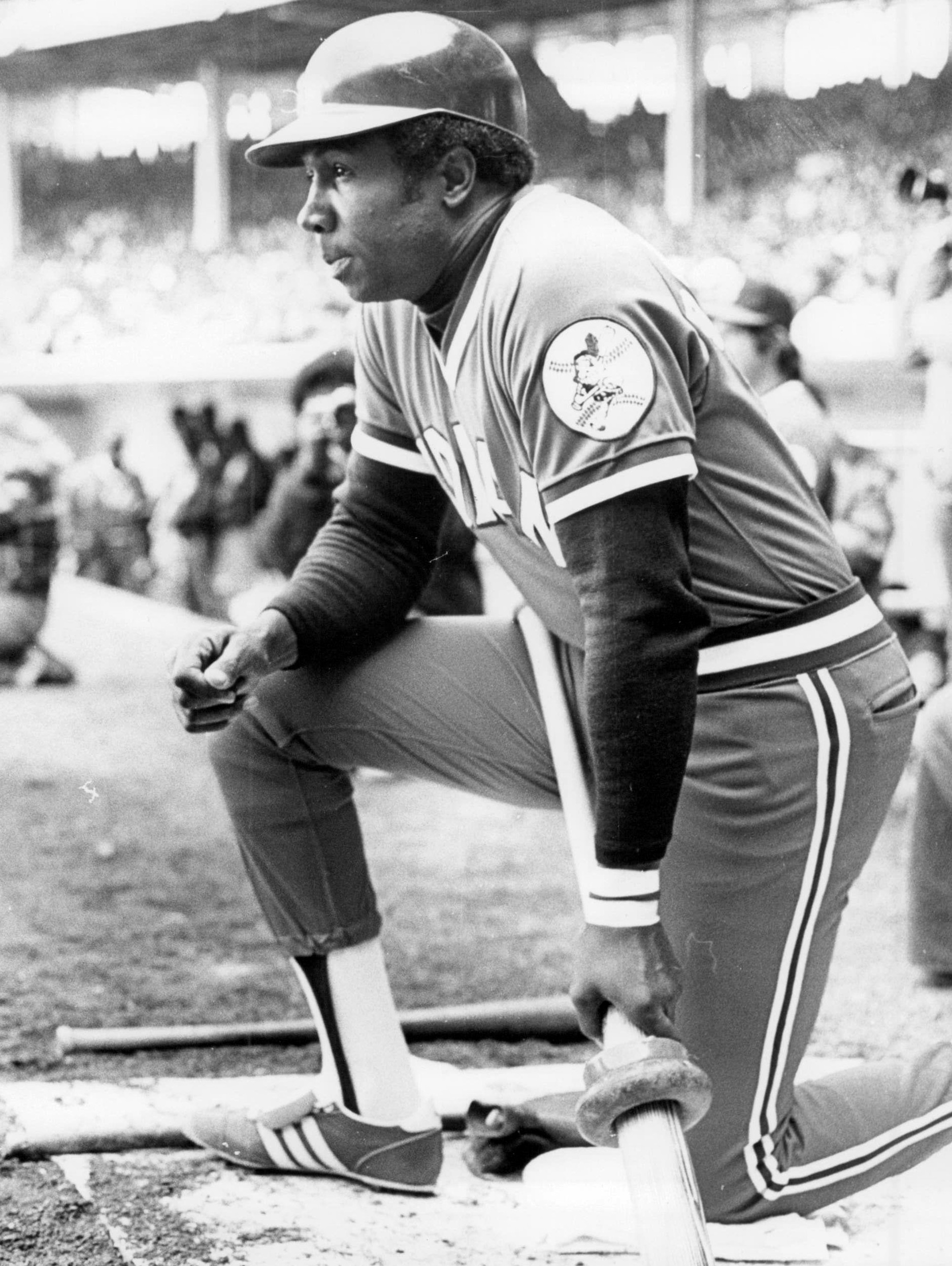 Professional baseball player Frank Robinson